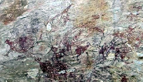 Caves paintings of Tambun 3000bc, in Ipoh, Perak state, Malaysia.